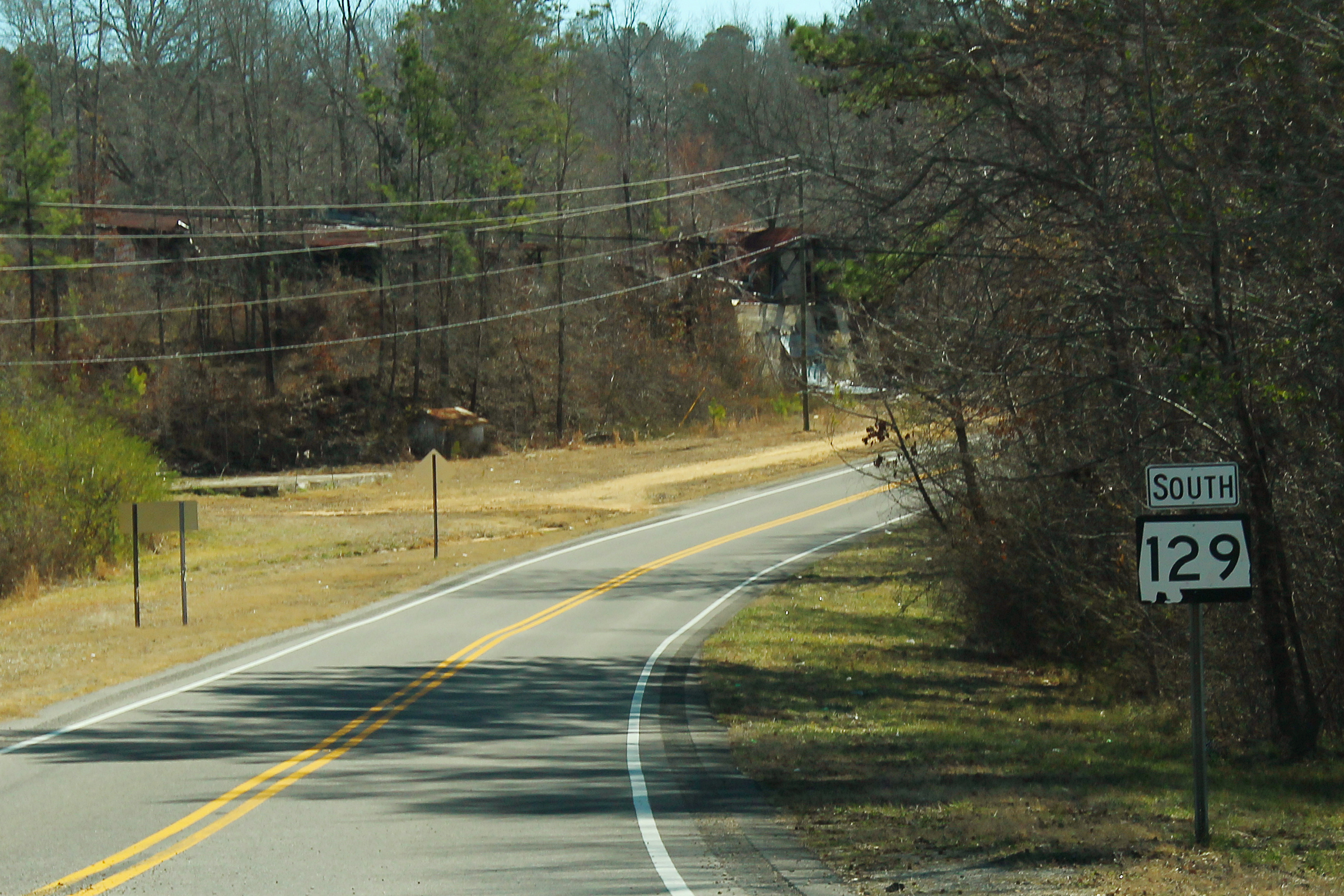 AL129sRoadSign-OffAL118